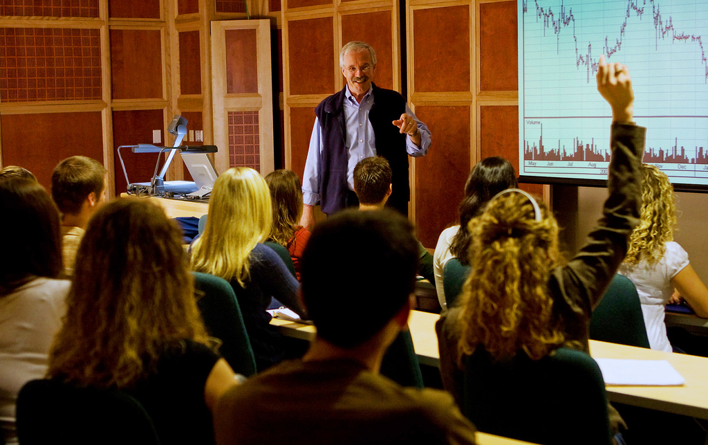 StFX Economics class.